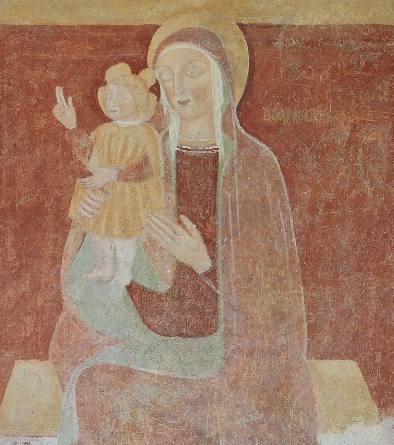 San Pantaleo church (Ranzo, IM, Italy): Guido da Ranzo's fresco